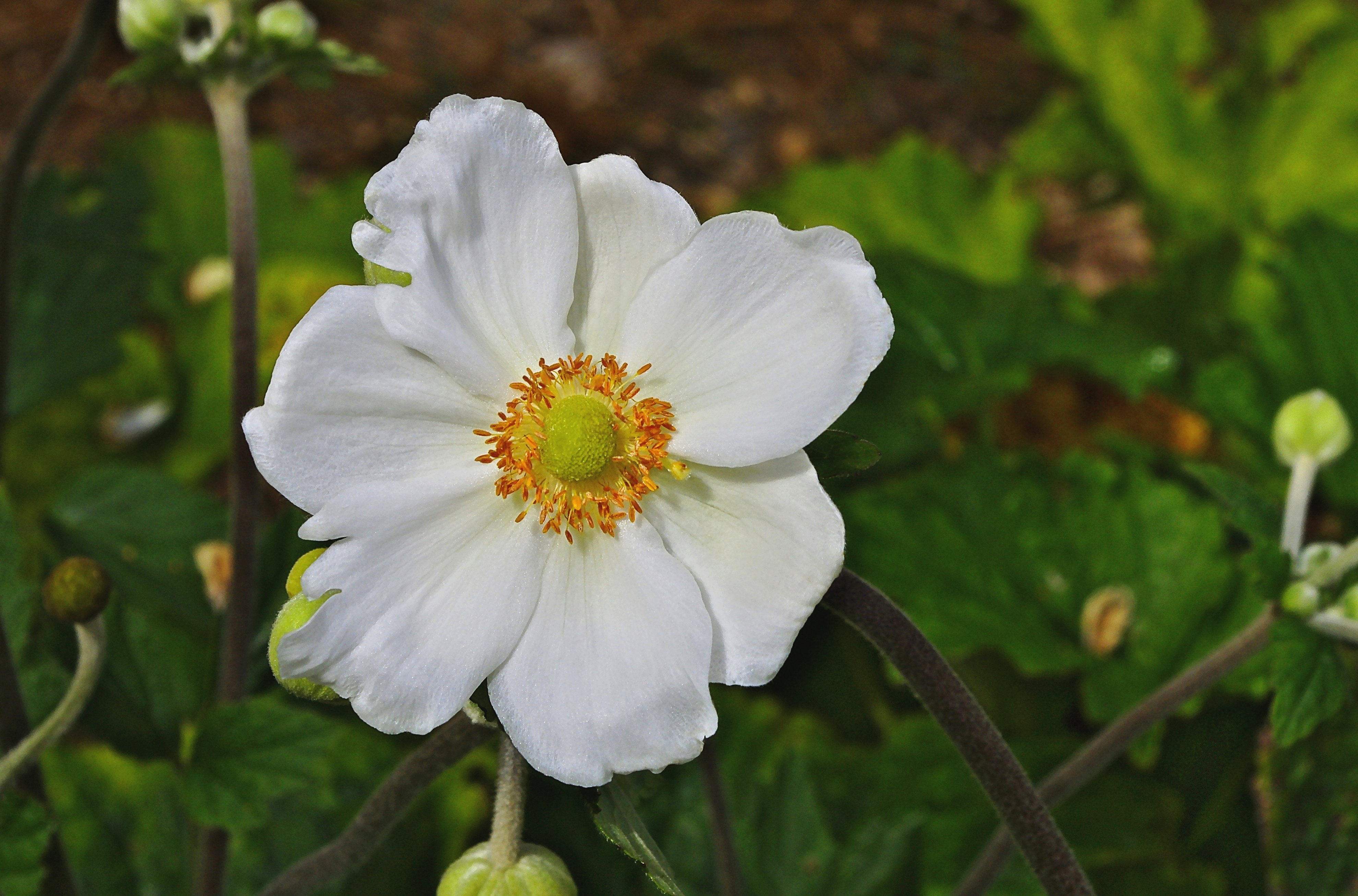 Anemone (Anemone hupehensis or Anemone japonica) in a garden, France.